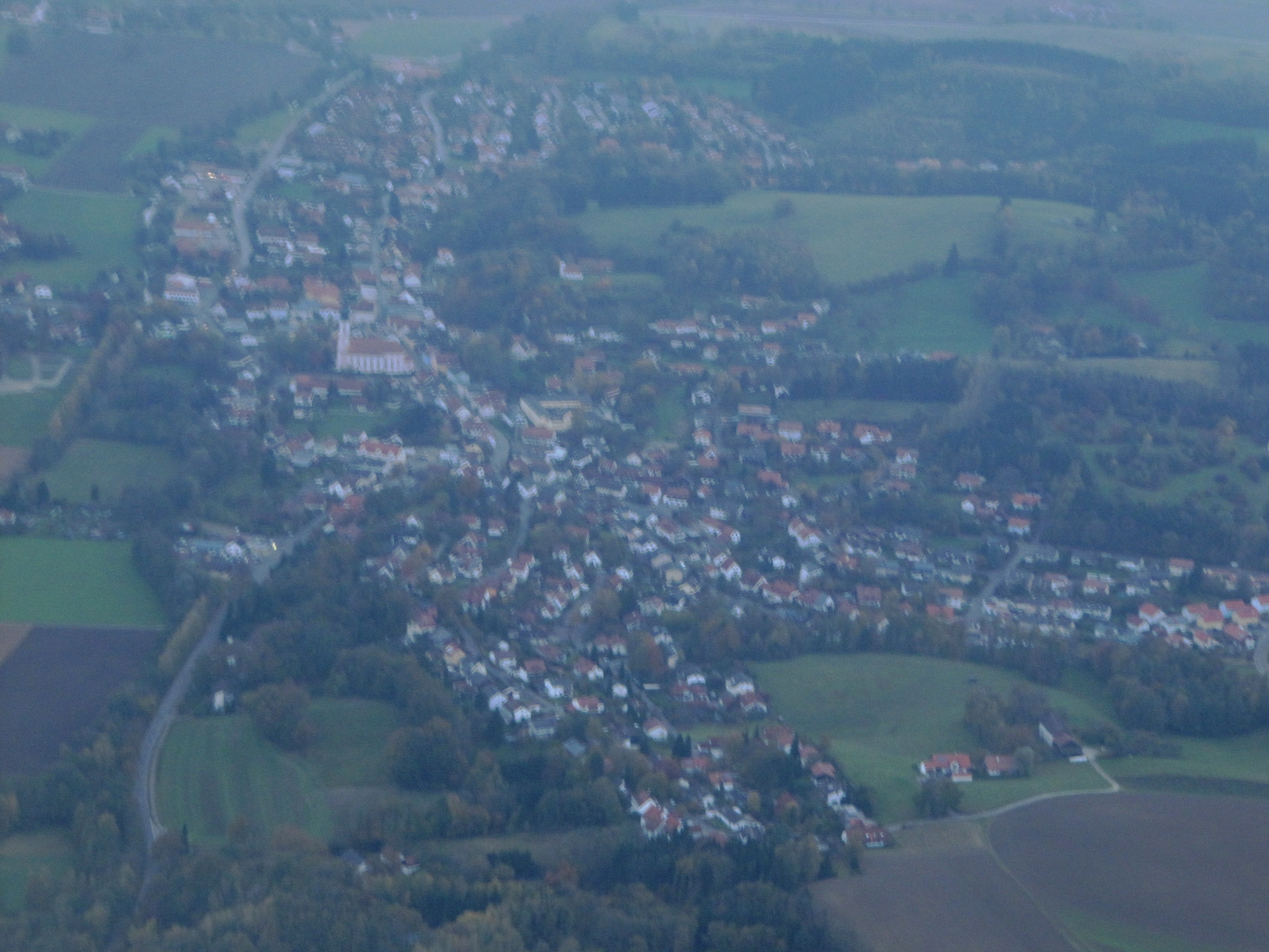 Wartenberg